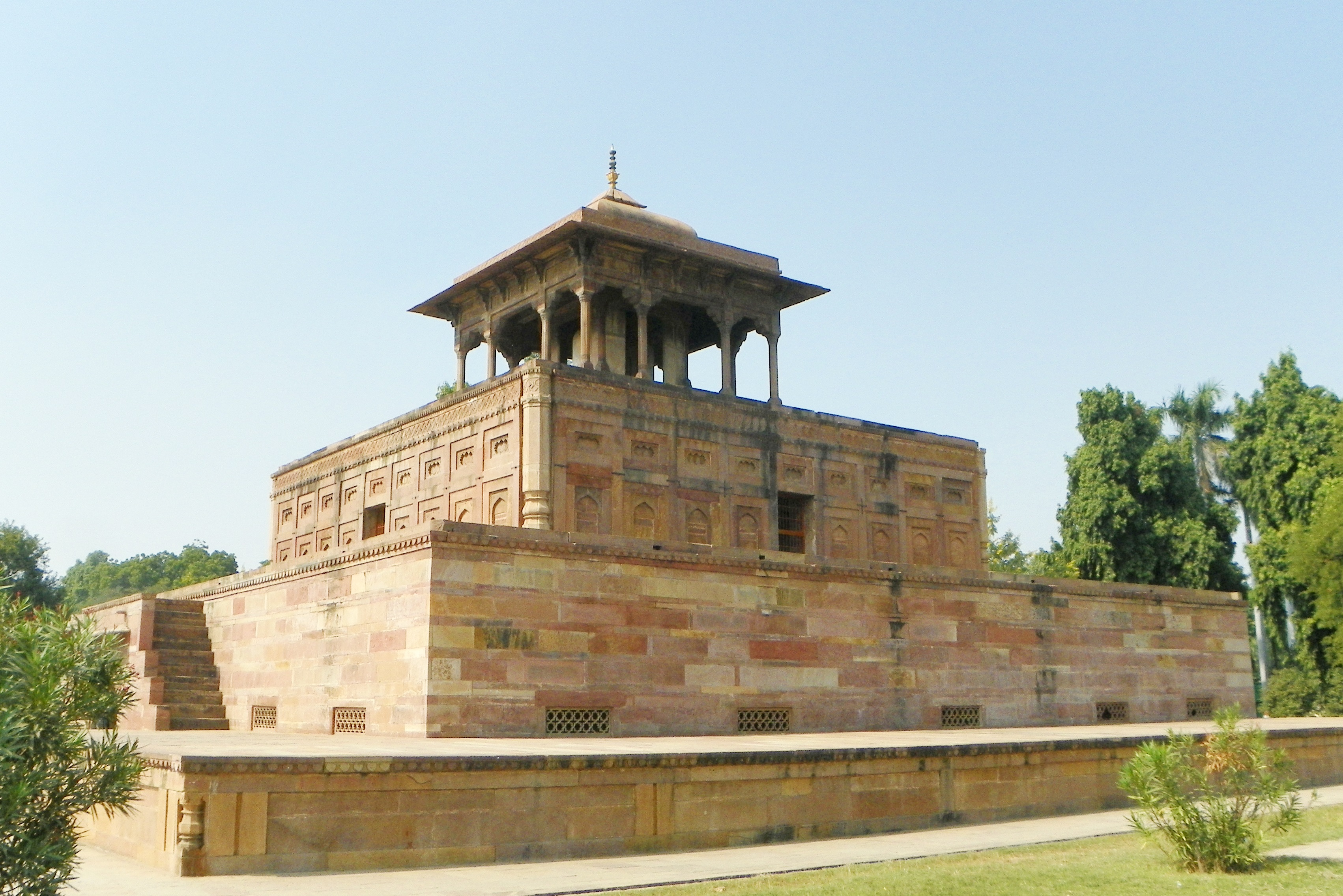 Khusru Bagh: Tomb of Sultan Khusru's Mother